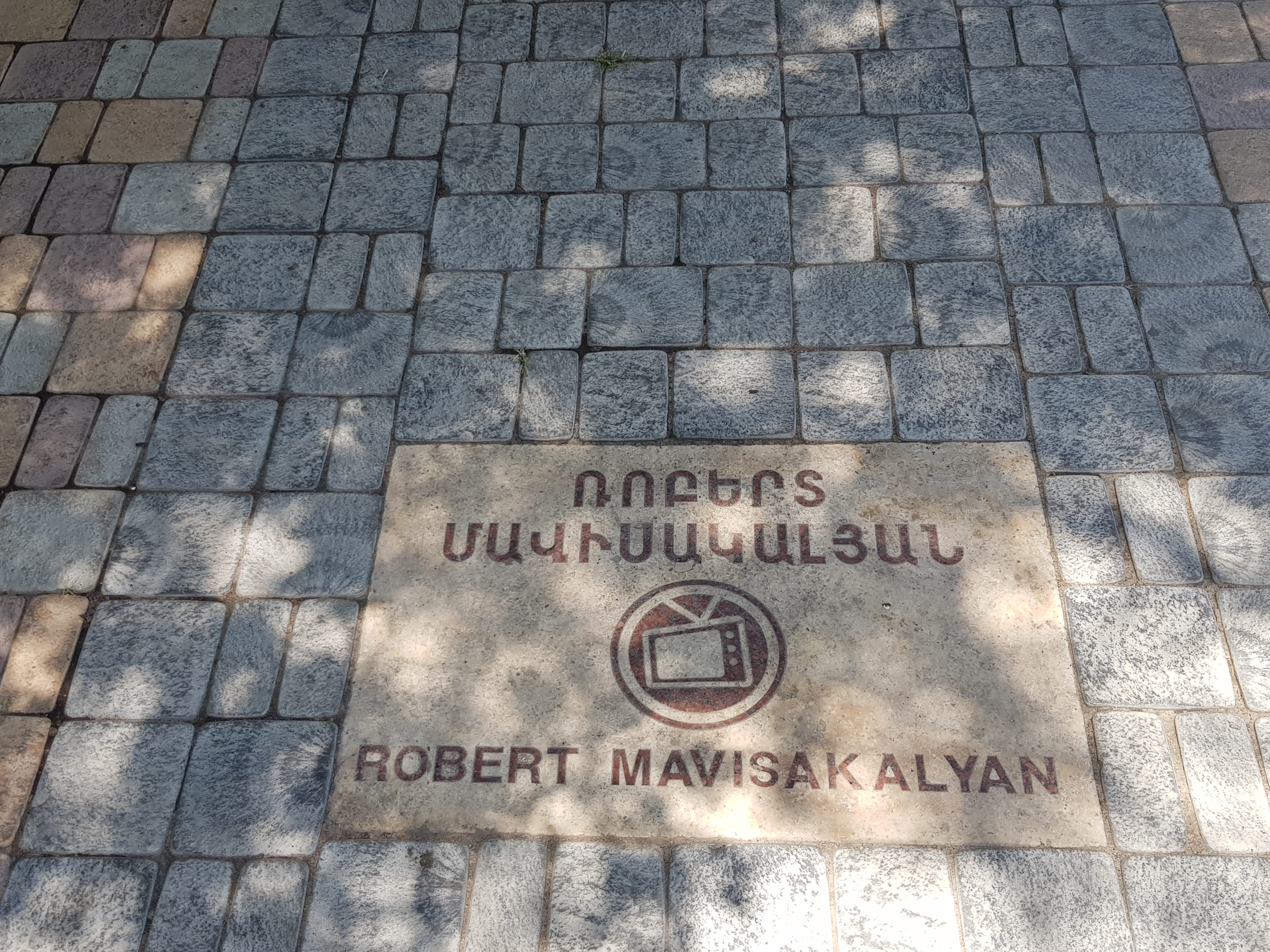 Alley of Devotees, Yerevan